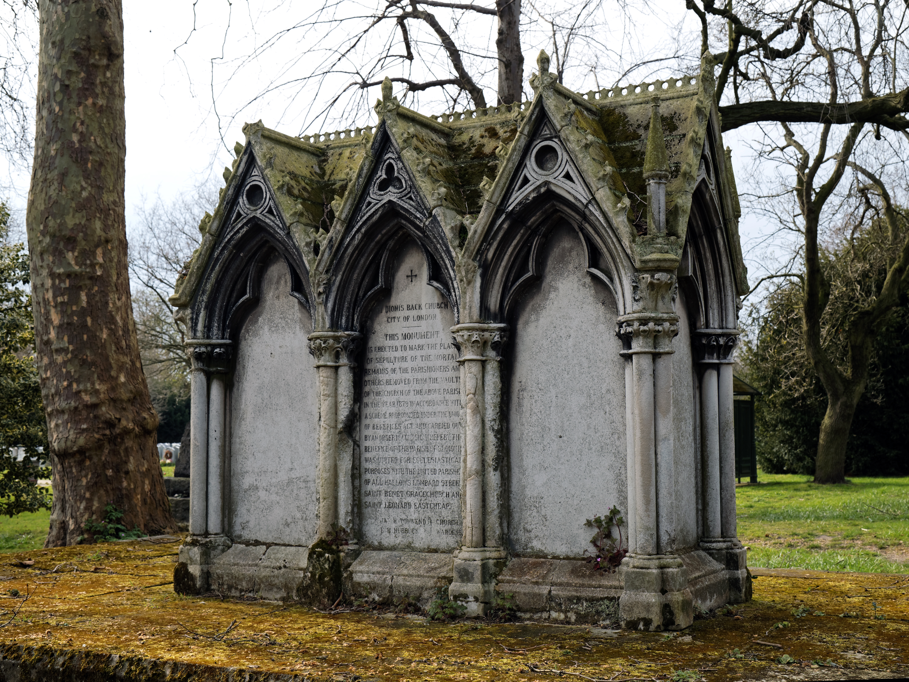 The 1879 monument marking the re-interment beneath of parishioner remains from the demolished Wren City of London Church of St Dionis Backchurch. The monument is on the St Dionis Road of the City of London Cemetery, Newham, England.Camera: Canon EOS 6D with Canon EF 24-105mm F4L IS USM lens.Software: large RAW file lens-corrected, optimized and downsized with DxO OpticsPro 10 Elite, Viewpoint 2, and Adobe Photoshop CS2.